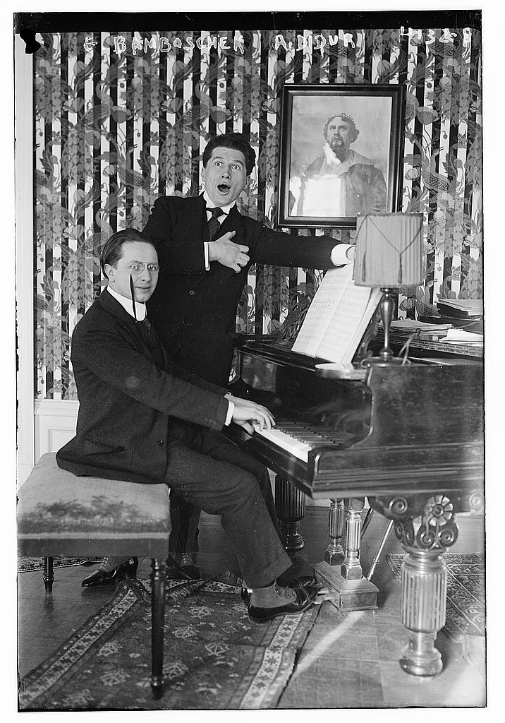 Bain News Service,, publisher. Giuseppe Bamboschek and Adamo Didur in 1917 [between ca. 1915 and ca. 1920] 1 negative : glass ; 5 x 7 in. or smaller. Notes: Title from unverified data provided by the Bain News Service on the negatives or caption cards. Forms part of: George Grantham Bain Collection (Library of Congress). Format: Glass negatives. Repository: Library of Congress, Prints and Photographs Division, Washington, D.C. 20540 USA, General information about the Bain Collection is available at Higher resolution image is available (Persistent URL): Call Number: LC-B2- 4132-8